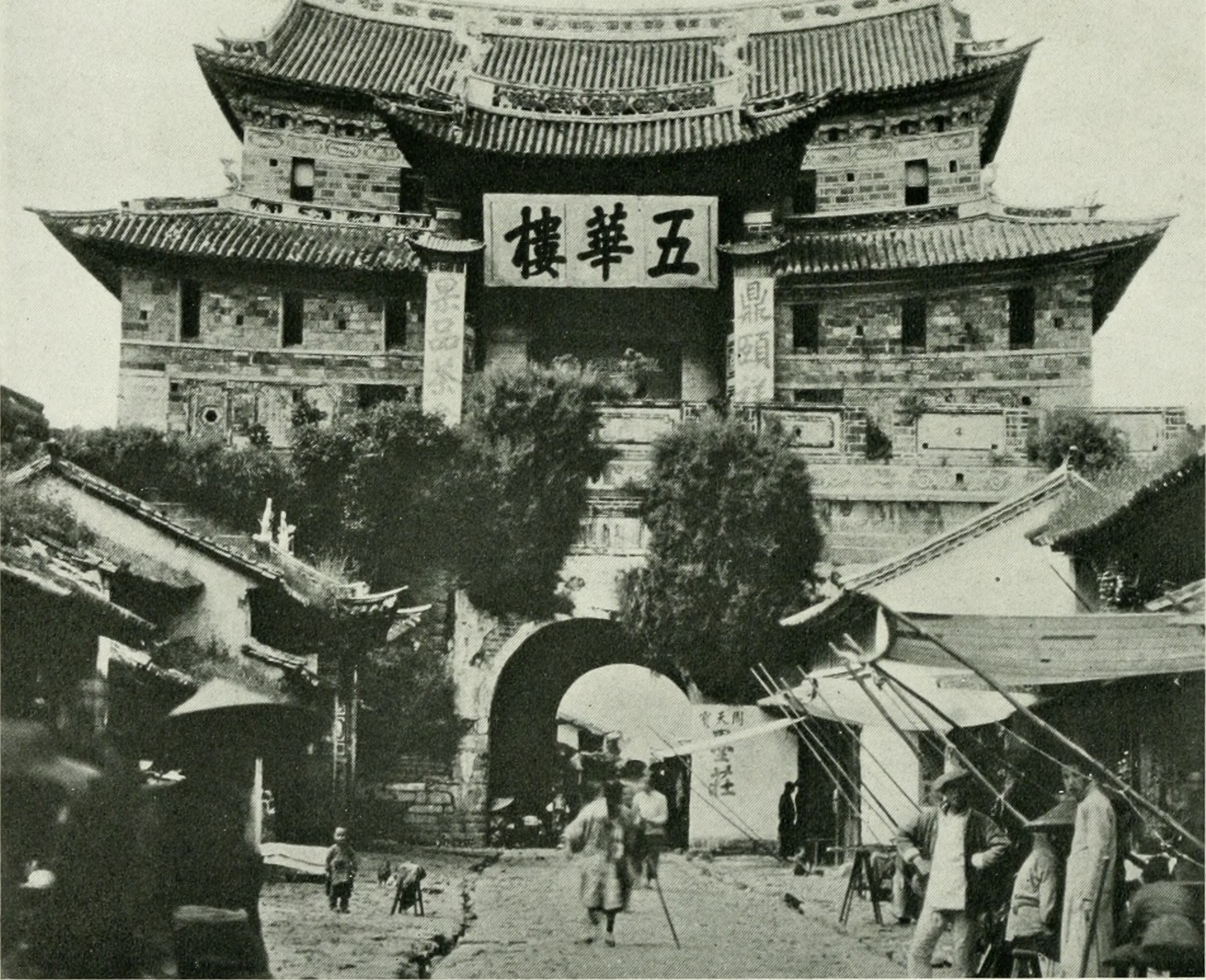 Title: The American Museum journal Year: c1900-(1918) (c190s) Authors: American Museum of Natural History Subjects: Natural history Publisher: New York : American Museum of Natural History Text Appearing Before Image: 262 THE AMERICAN MUSEUM JOURNAL treasures and a safeguard of her his- tory. China should have a simUar ac- tive society to protect, care for, and repair her buildings, monuments, and antiquities. She needs an Arcliajologi- cal Survey, financed by the government and administered by trained men, to locate and appraise her scientific treas- ures and to undertake the establishment of national and provincial museums where her priceless objects of art and antiquity can find a permanent resting place and be open to exhibition and study. In this period of transition China's peril is great. She must awake to save the memorials of her ancient civiliza- tion or they will be stolen from her by ruthless vandals, bartered to enrich the coffers of soulless traders, and the rec- ords of her glorious past will lie in cruuiljling walls and heaps of dust.^ ^ See A merican Museum Journal, Vol. XVI, pp. 109-112, and Vol. XVII, pp. 525 and 530 for further illustrations of Chinese" monuments photo- graphed by Mr. Andrews. Text Appearing After Image: Gate at the old city of Tali-fu in Yunnan. — Marco Polo passed through this gate about the year 1284. The famous traveler visited China during the reign of Kublai Kahn, and it is mainly to his book of recollections that Cathay, as the Chinese empire was known to mediseval Europe, owed the growing familiarity of its name in Europe during the fourteenth and fifteenth centuries. The Polos were pioneers of a very considerable intercourse between China and Europe, which endured for about half a century, or until the end of the Mongol dynasty. Trees are growing from the upper parts of this historical monument and it soon will be a crumbling ruin